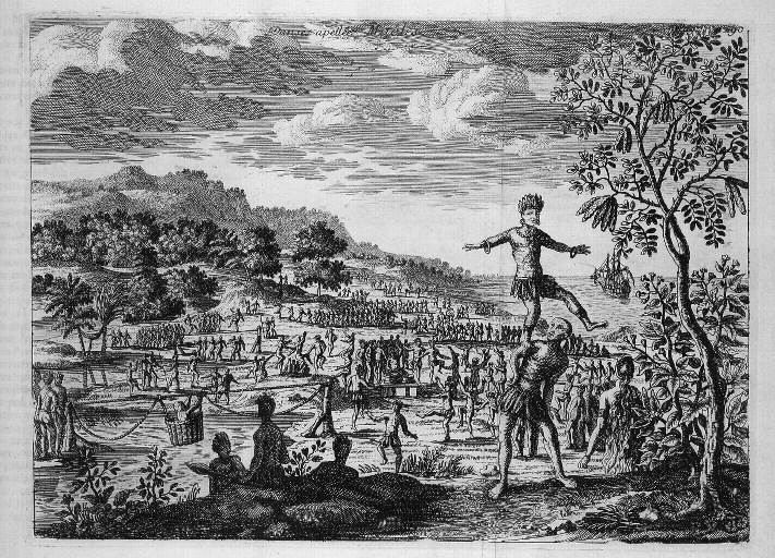 Mitoles (Indian Dance) - Copper-plate engraving from Van Beecq